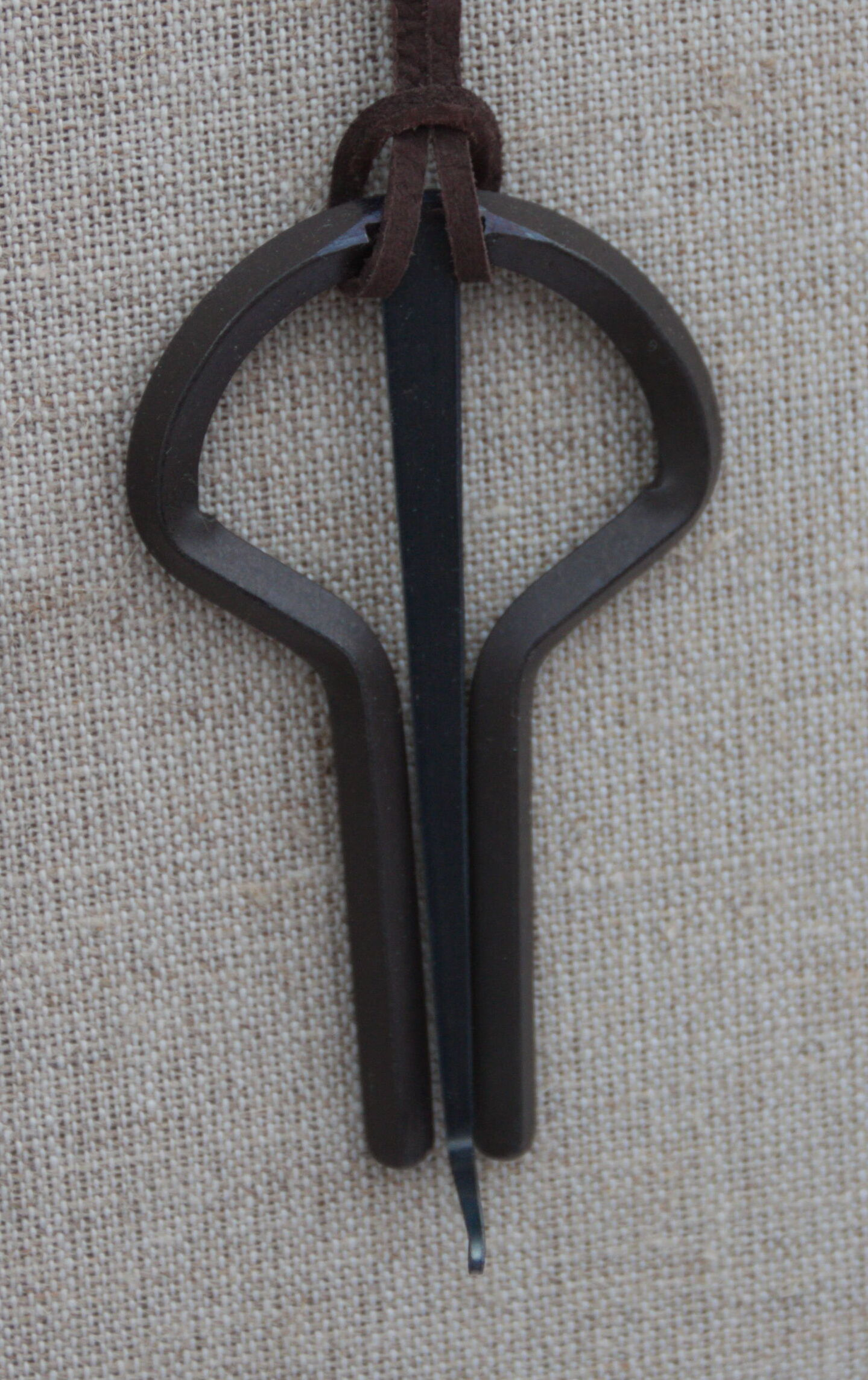 Jaw's harp/ Jew's harp - Slovak "drumbla", a musical instrument. Carpathian Ethnography Project, Slovakia, third day, Myjava Festival 2017. Photo quality will be improved later.